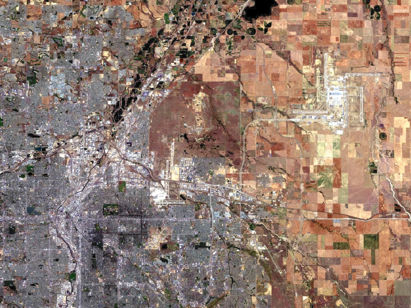 This is a satellite picture taken in 1999 of the northeast Denver, Colorado, metro area by NASA'a Landsat 7 Project.